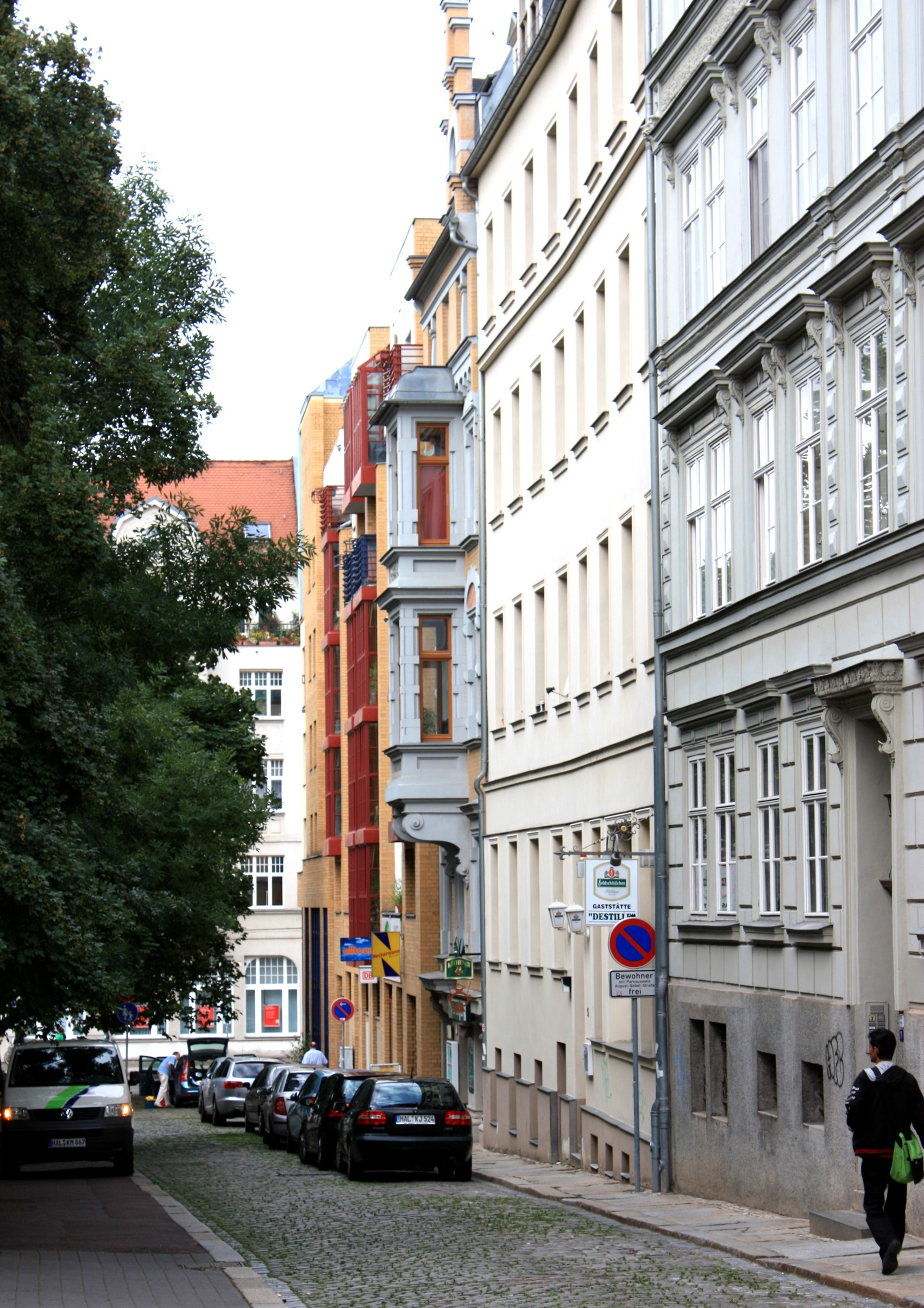 Halle (Saale), the street "Scharrenstraße"